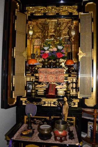 Photograph of a Butsudan, a Buddhist shrine for ancestor worship, taken in Yawata, Kyoto